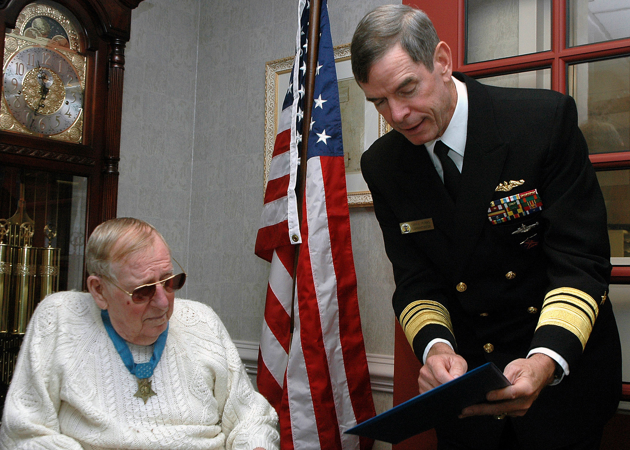 Annapolis, Maryland (USA), 27 November 2006: Retired Medal of Honor recipient Rear Adm. Eugene Fluckey receives recognition from Vice Adm. Charles Munns, Commander, Naval Submarine Forces, at the Arbor Nursing Home in Annapolis, Md. Fluckey received the Medal of Honor for gallantry as commanding officer of USS Barb (SS-220) in 1944.